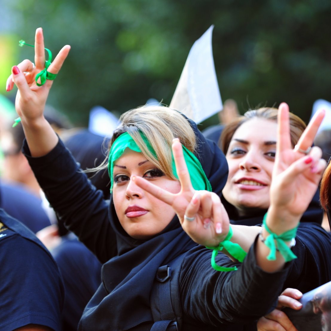 27e Khordad (June 17th) Haft-e Tir Square (and around streets) More photos here: Viva Iran!